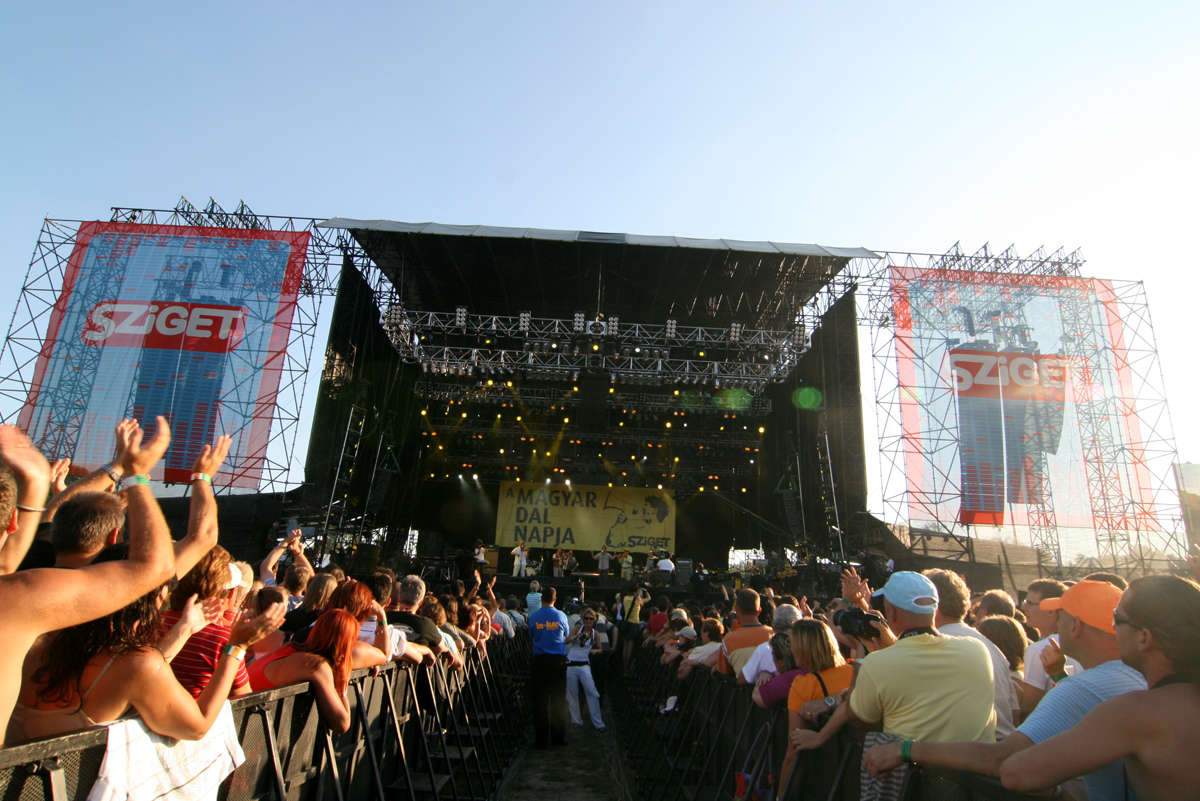 Sziget